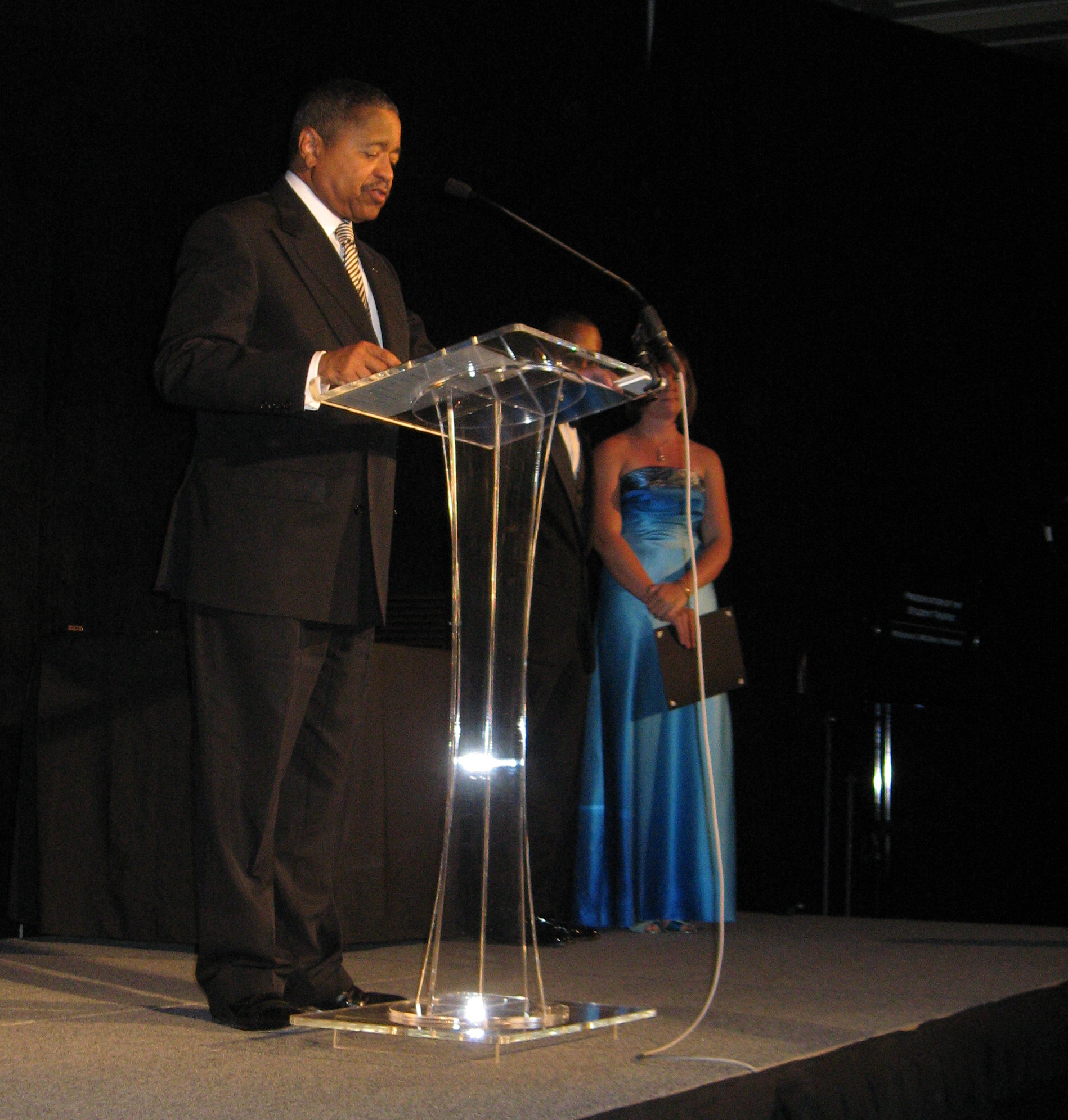 Ohio University President Roderick J. McDavis speaks in OU's John Calhoun Baker University Center (Athens, USA)